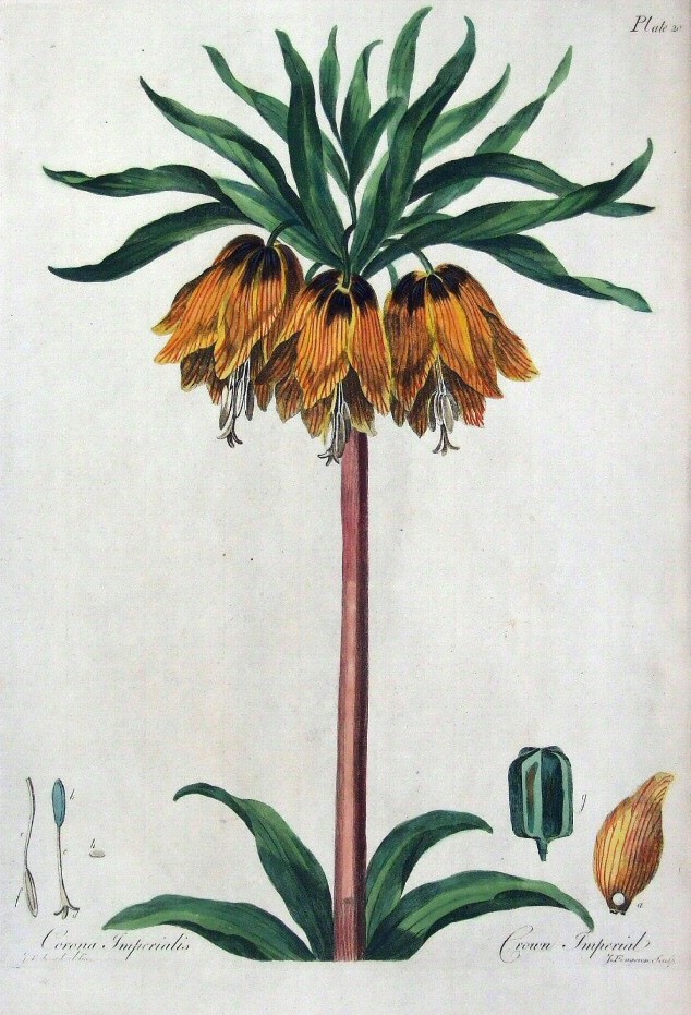 Crown Imperial Fritillaria